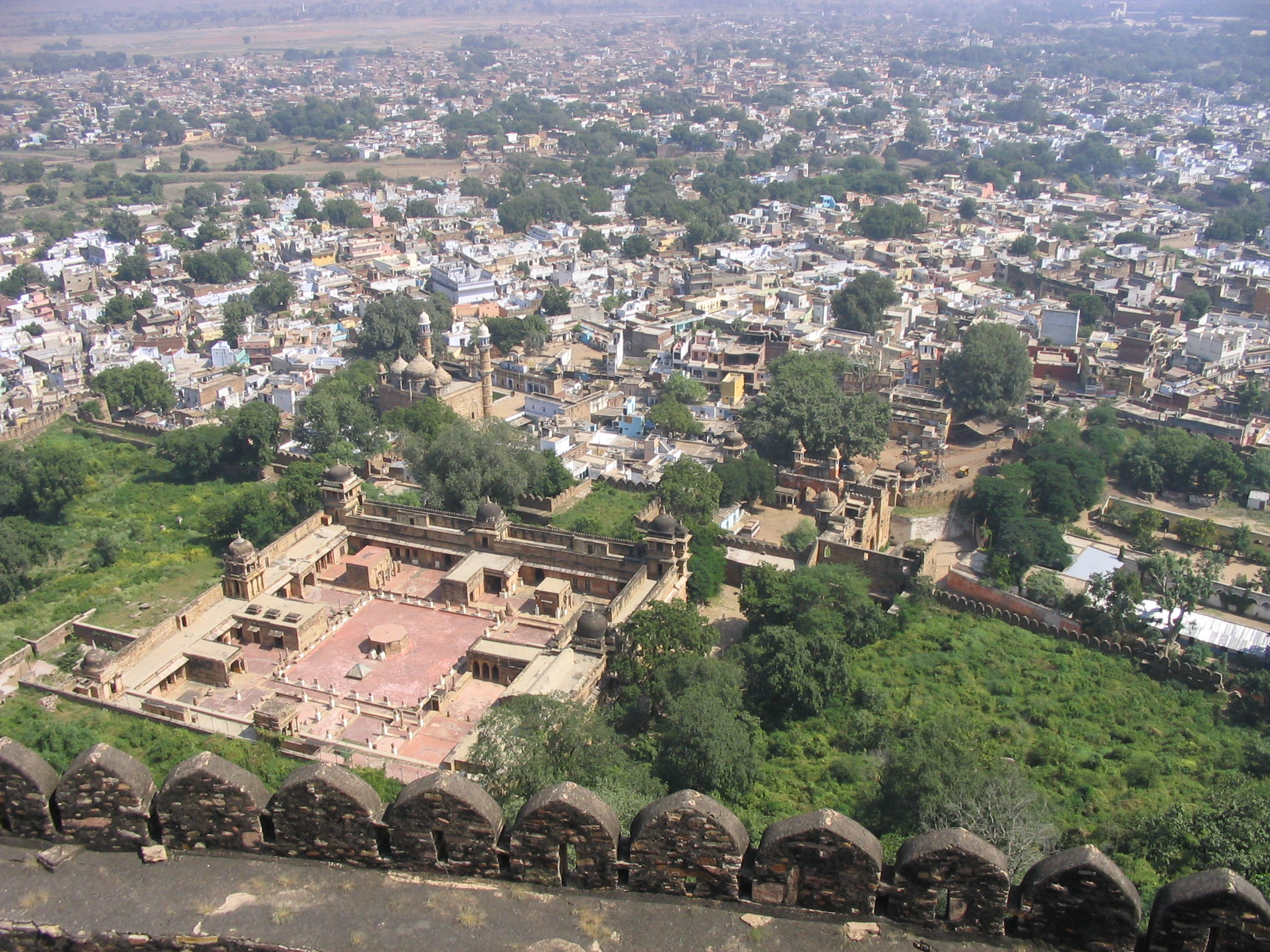 Gwalior City, View from the Fort